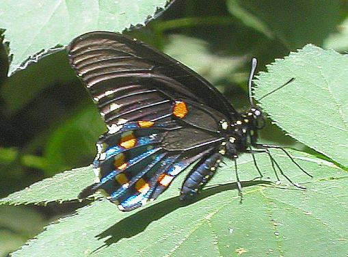 God made this, I took the picture. Taken at Lodi Lake in Lodi, CA